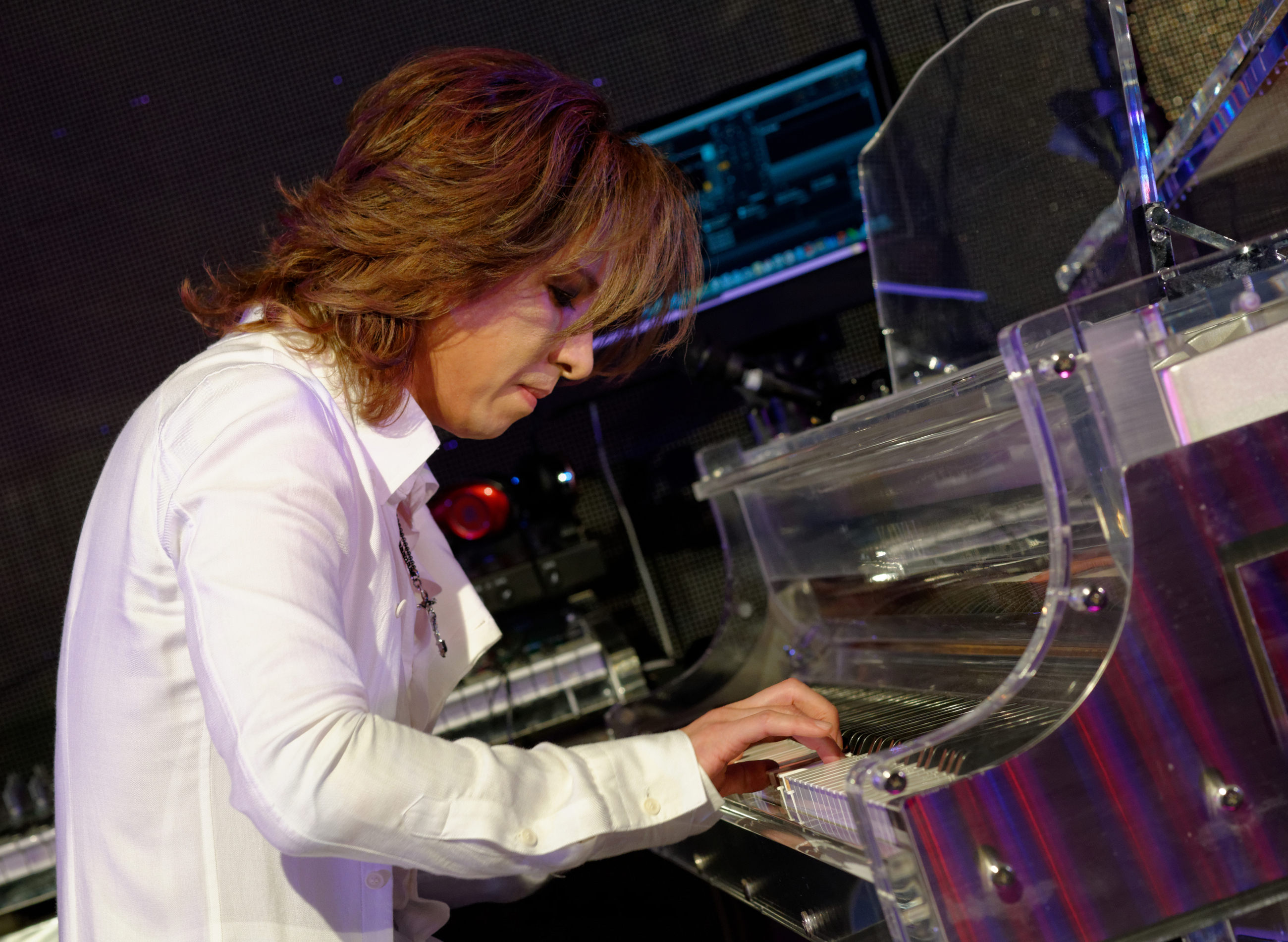 Yoshiki (of the band X Japan) performing live and speaking on the Target Terrace on the rooftop of the Grammy Museum in downtown Los Angeles California on Wednesday February 19th, 2014. Yoshiki announced some of the dates of his upcoming world tour to promote his new solo "Yoshiki Classical" album. Stan Lee introduced Yoshiki (the two had collaborated on a comic book series in the past). This was a private event, but between 100-150 fans were awarded tickets via social media promotions and an email contest. Shot using a Nikon D610 with NIKKOR 85mm f/1.8G and 50mm f/1.4D lenses.